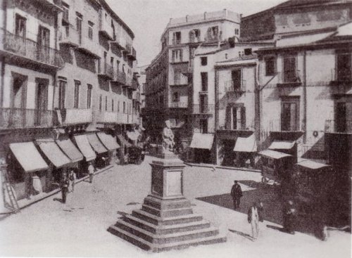 Statue of the Genio di Palermo at Piazza Rivoluzione (early 20th century).